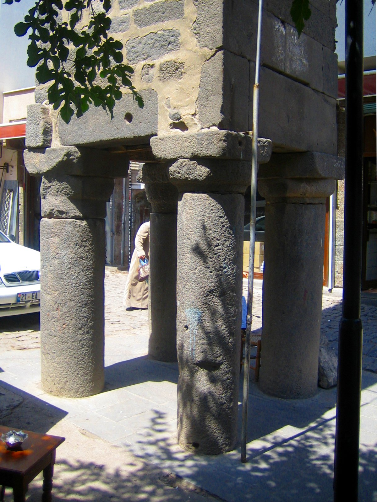 Diyarbakir: Four Legs Minaret (Dört Ayakli Minare).